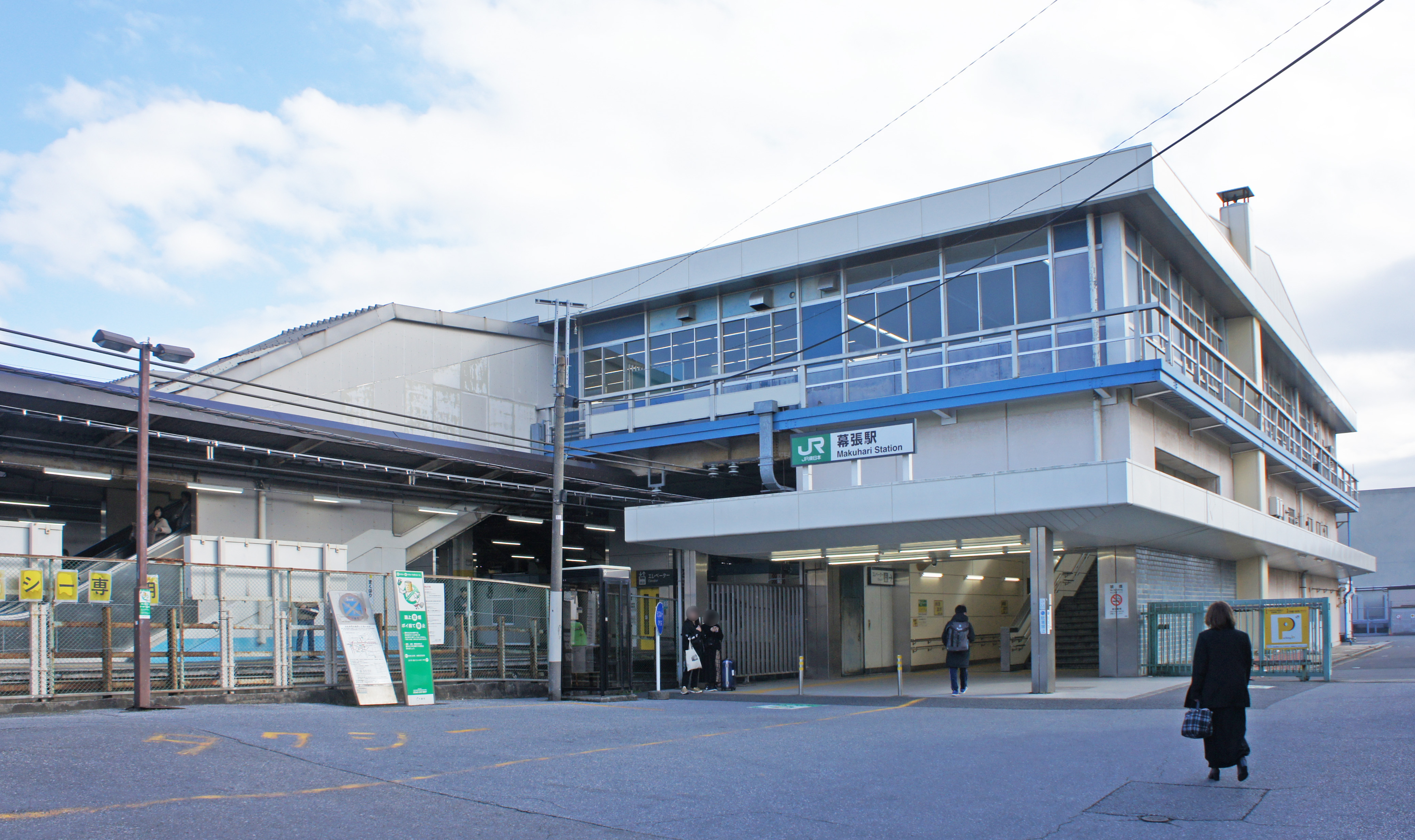 South Exit of JR Sobu-Main-Line Makuhari Station